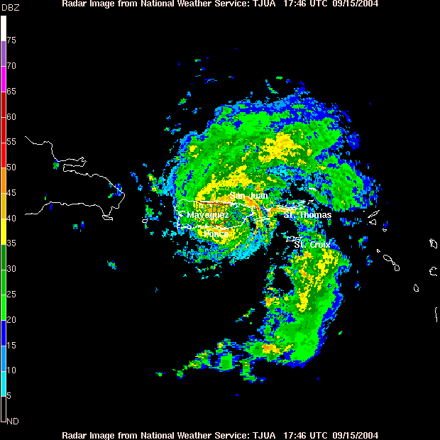 Radar image of Jeanne hitting Puerto Rico